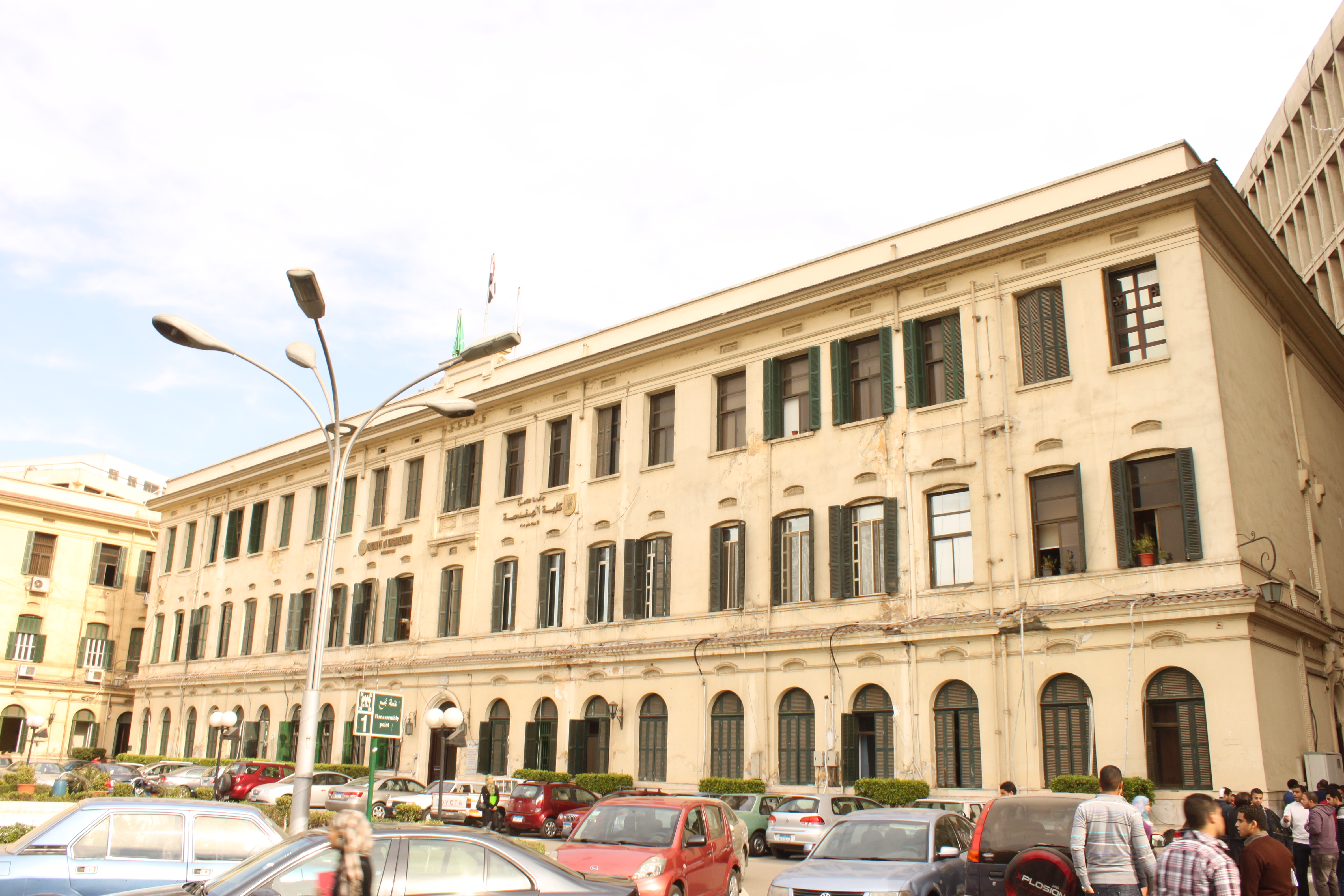 Cairo engineering